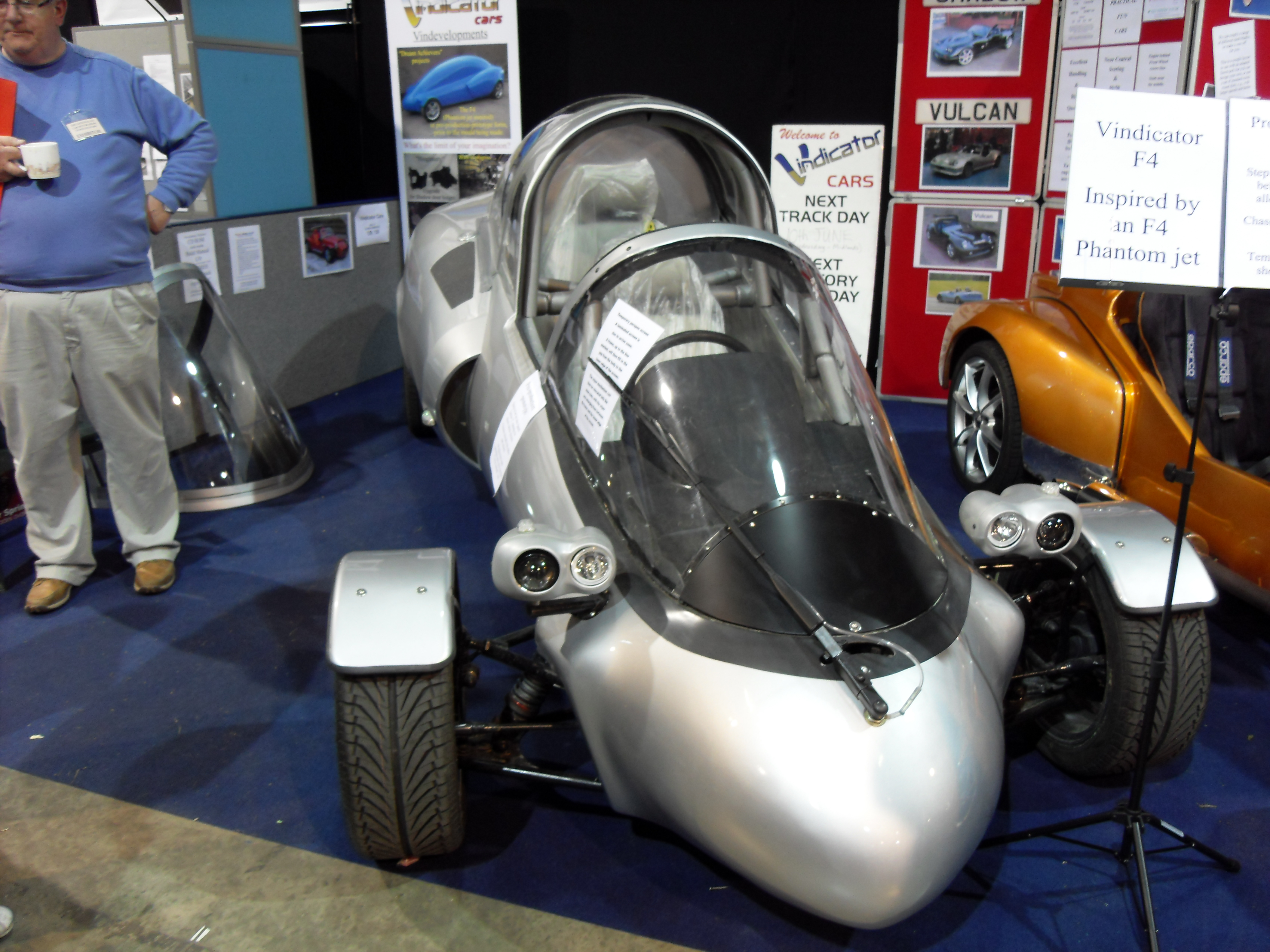 VLUU L310 W / Samsung L310 W taken at The National Kit Car Show Stoneleigh 2009